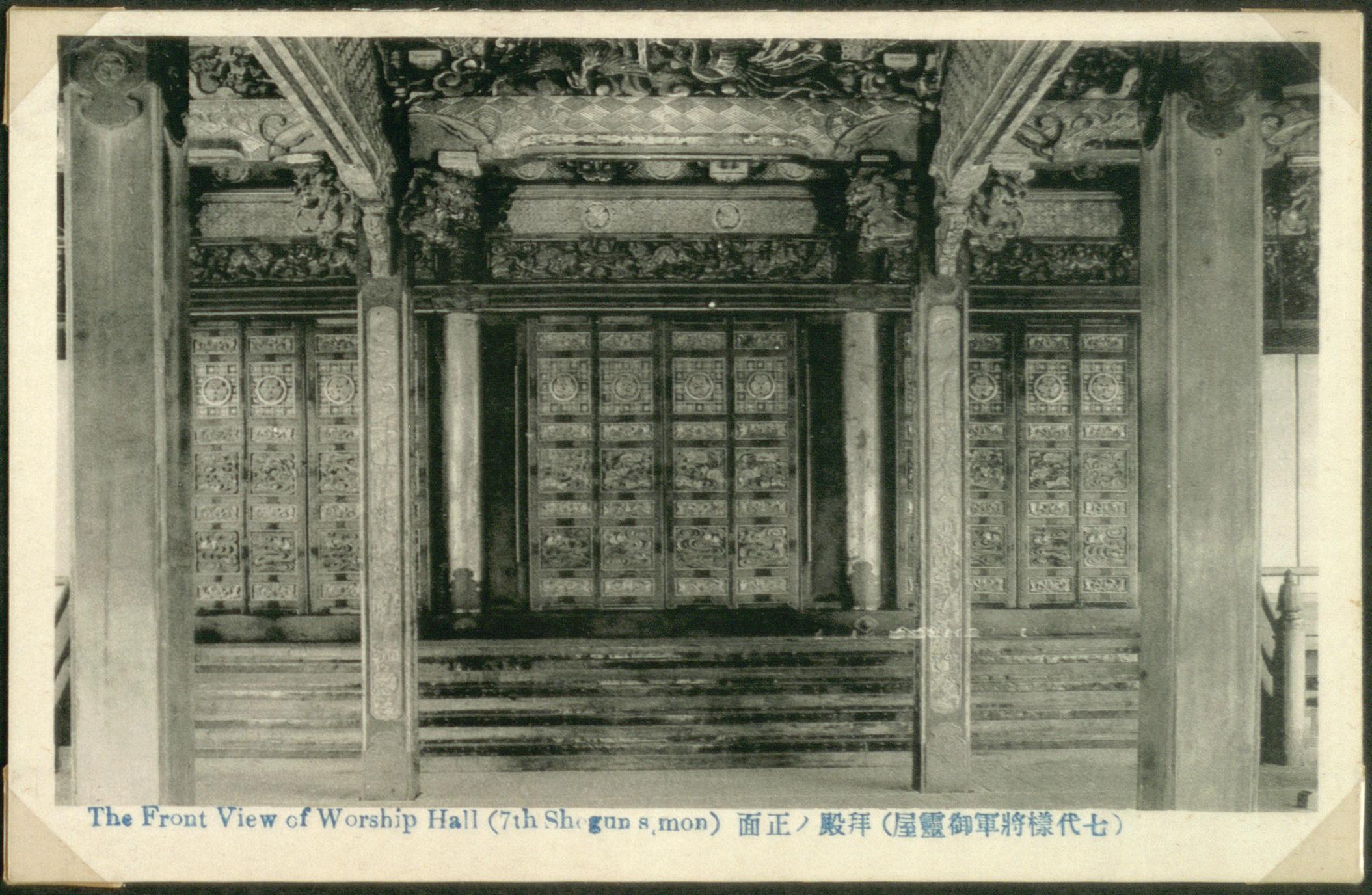 Postcard, which have belonged to Dr Kurt Wulff. No. es_b_00600